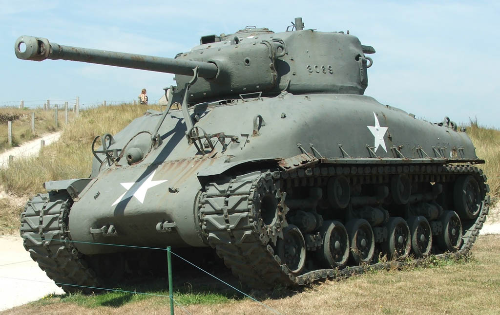 M4 Sherman tank at Utah Beach, Normandy